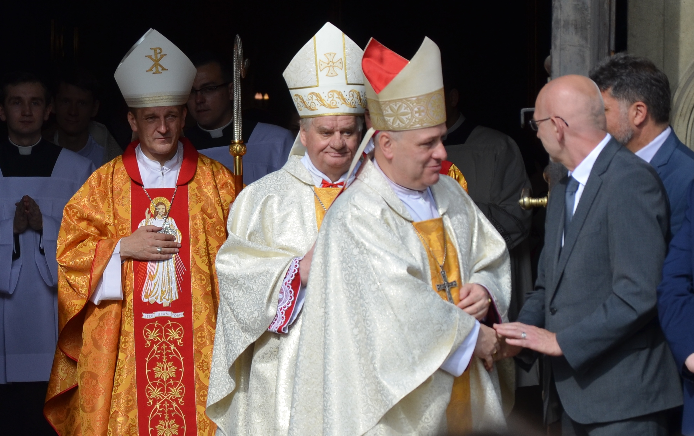 Bischöfe von Bielitz-Saybusch